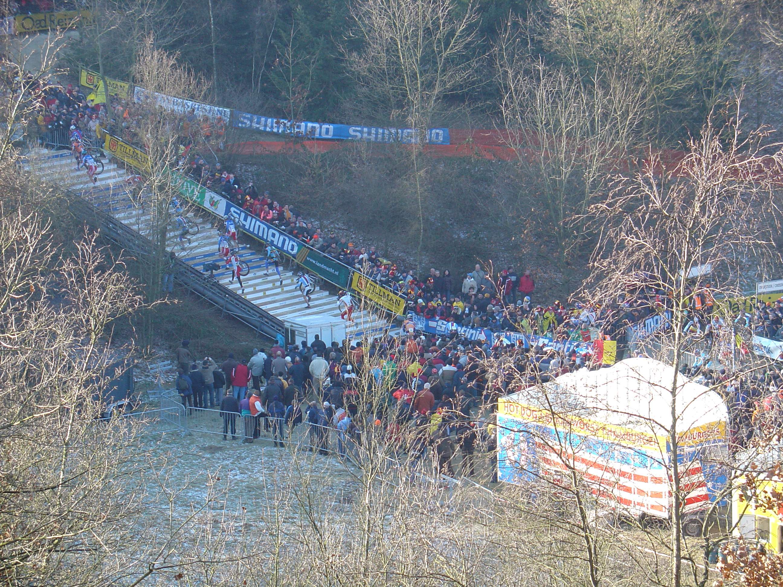 The World Championship Cyclo-cross in 2006, held in Zeddam, Netherlands. Riders running up the stairs with their bikes.